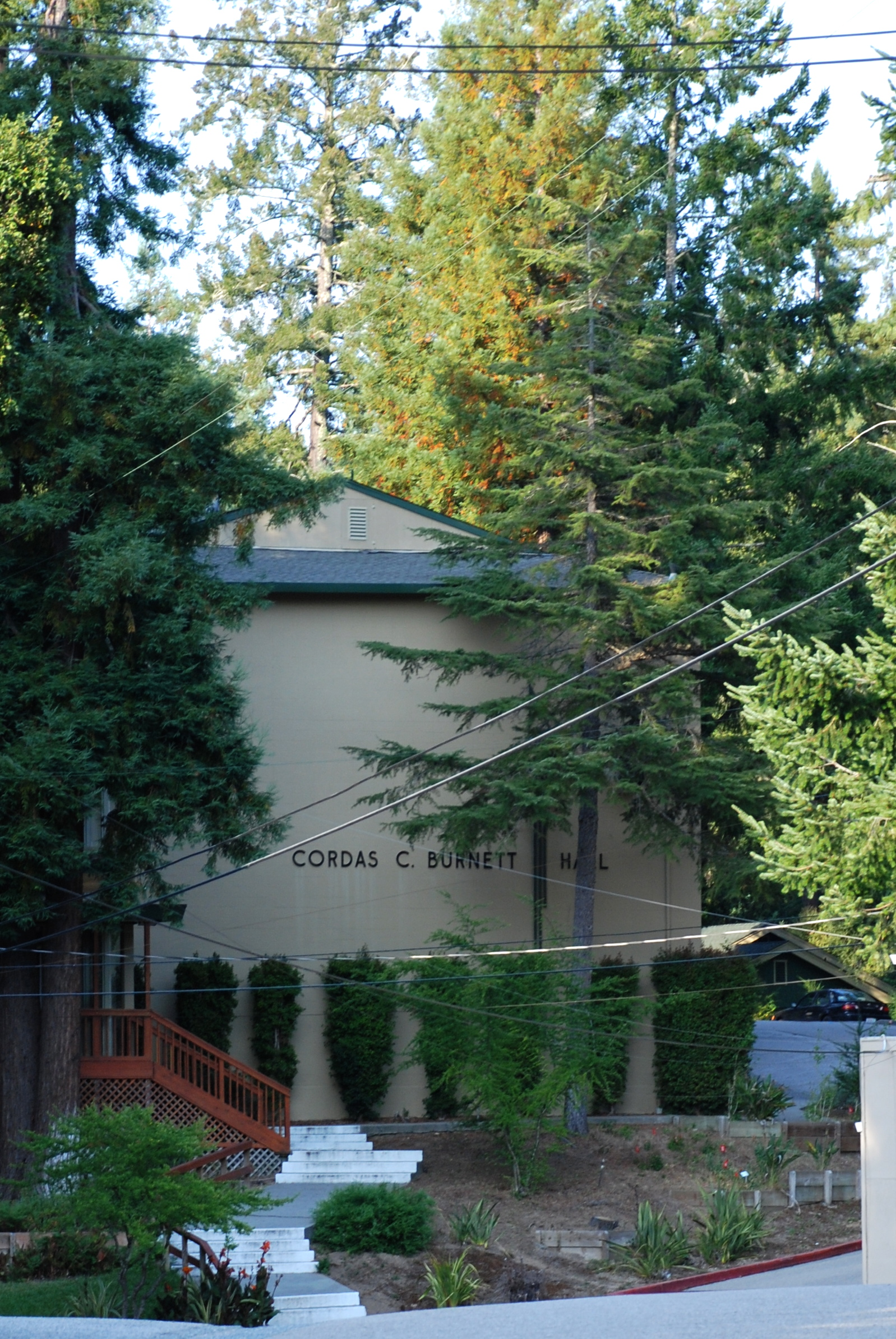 A 3-story dormitory on what was the campus of Bethany University of the Assemblies of God